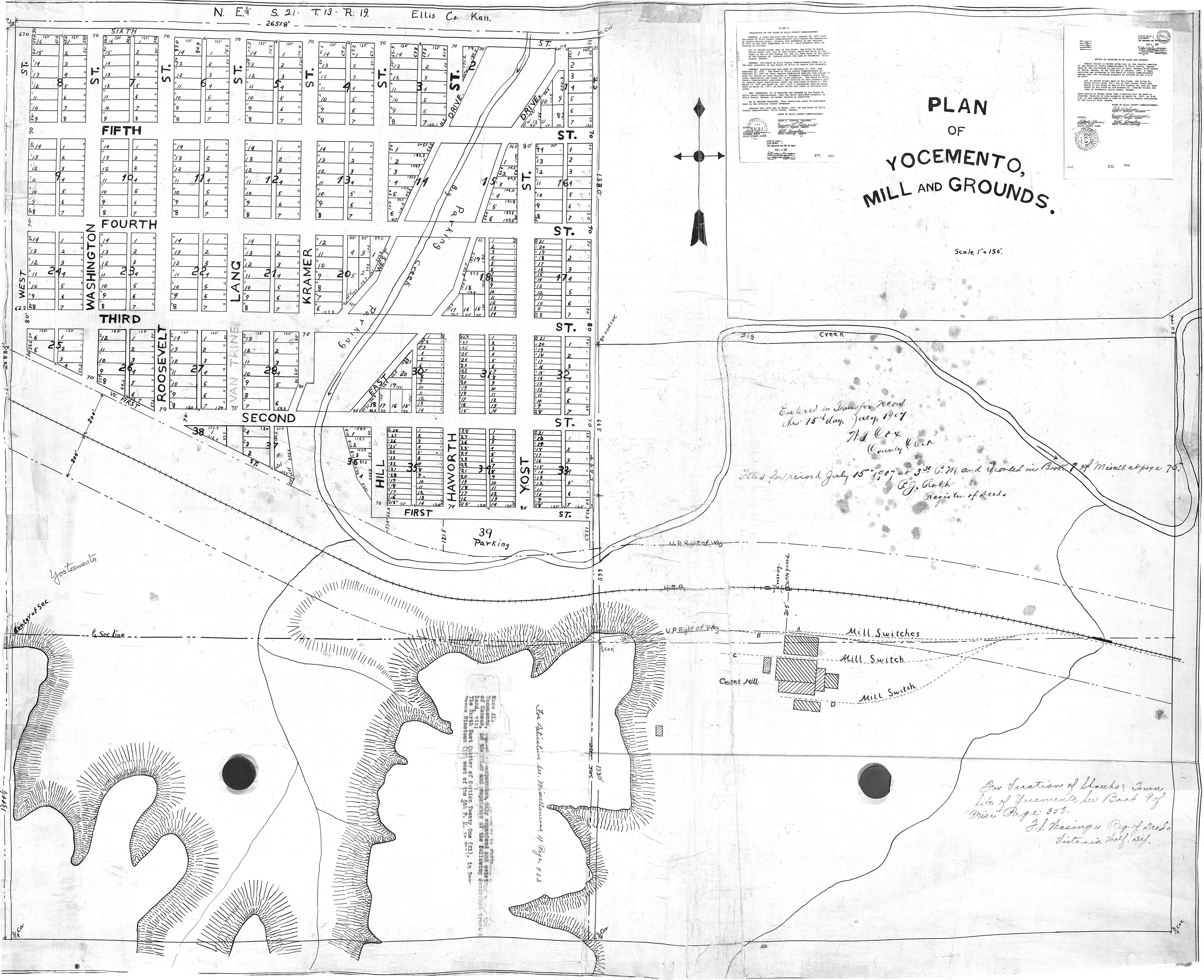 I. M. Yost's Plan of the Yocemento cement mill and community plat, registered July 15, 1907. The right half of the plat corresponds to the B. F. Replogle parcel in the Standard Atlas of Ellis County, Kansas, 1905.[1] Replogle insisted for compensation for construction of a road from Hays to this mill over his property.[2] This then identifies the creek to the southwest of the mill as Replogle creek, which is today crossed by the railroad with a substantial plate girder bridge by the switch to the grain elevator. This image was originally uploaded in pdf format, but failed to render. It was recently converted to png format using the Export PDF function of Adobe Acrobat Standard DC. The question of correct licencing was raised on Wikipedia and again on Commons. No interest in the question was shown. However, at the time, the image did not render; so, assessment was not immediately convenient. Since the content on the geodataportal is public domain, the only real question is whether Commons has the expectation that the 1997 vacation content be redacted.